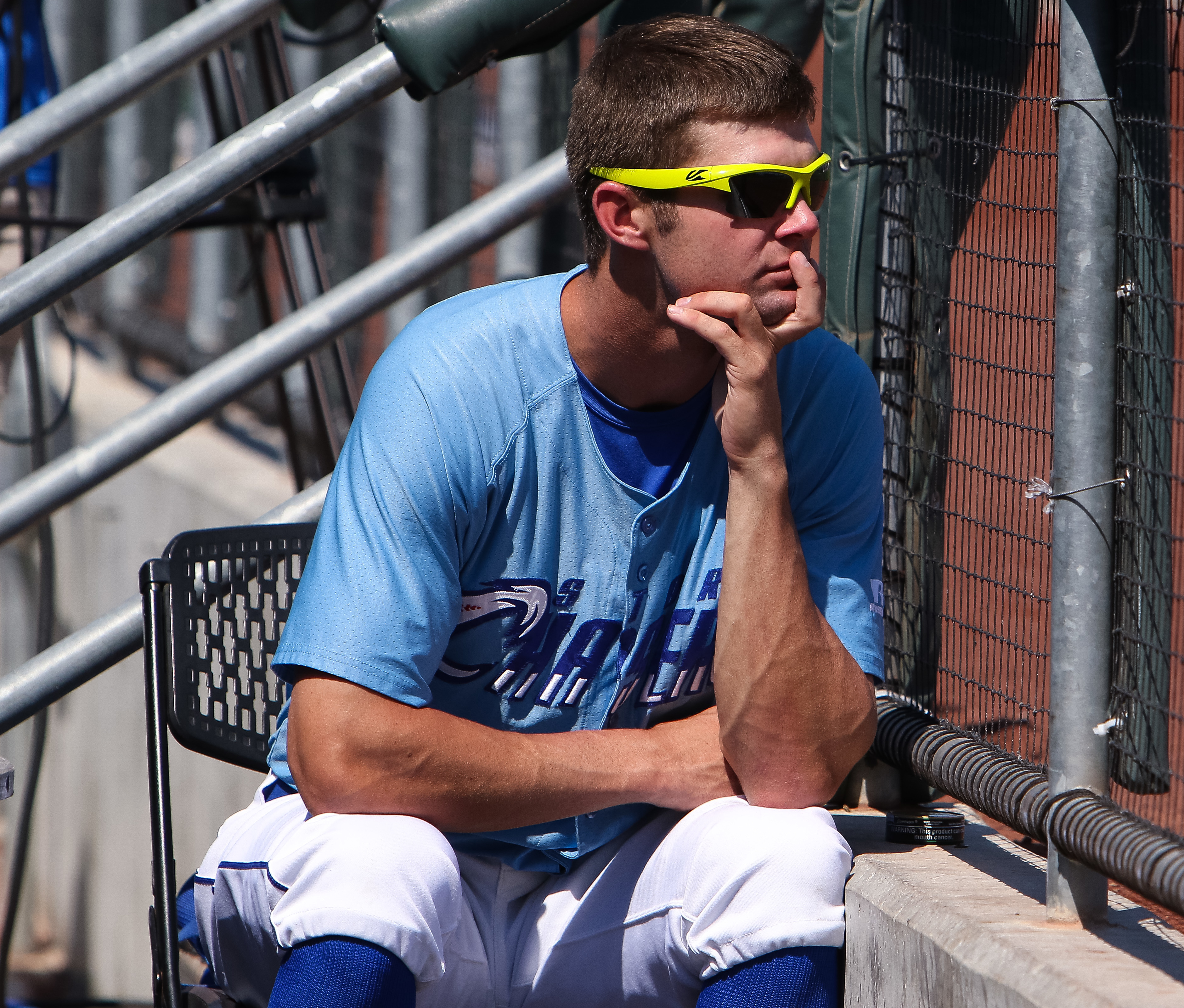 Minda Haas Kuhlmann | 2016 USAGE INSTRUCTIONS: You are welcome to share or publish to your own site or social media account, but you MUST credit me, Minda Haas Kuhlmann, or by my Twitter handle (@minda33) or Instagram (minda.haas).